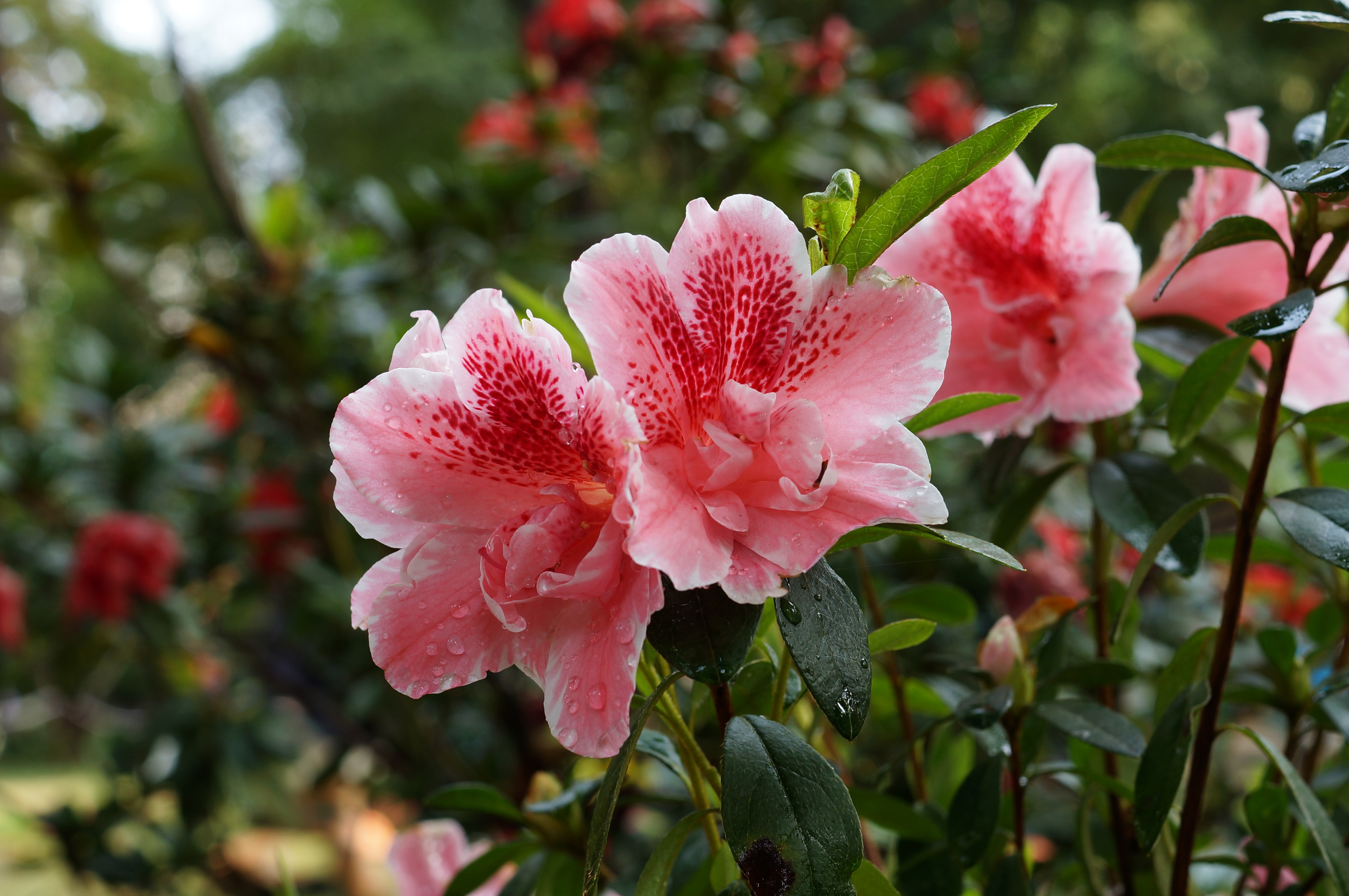 Red azalea